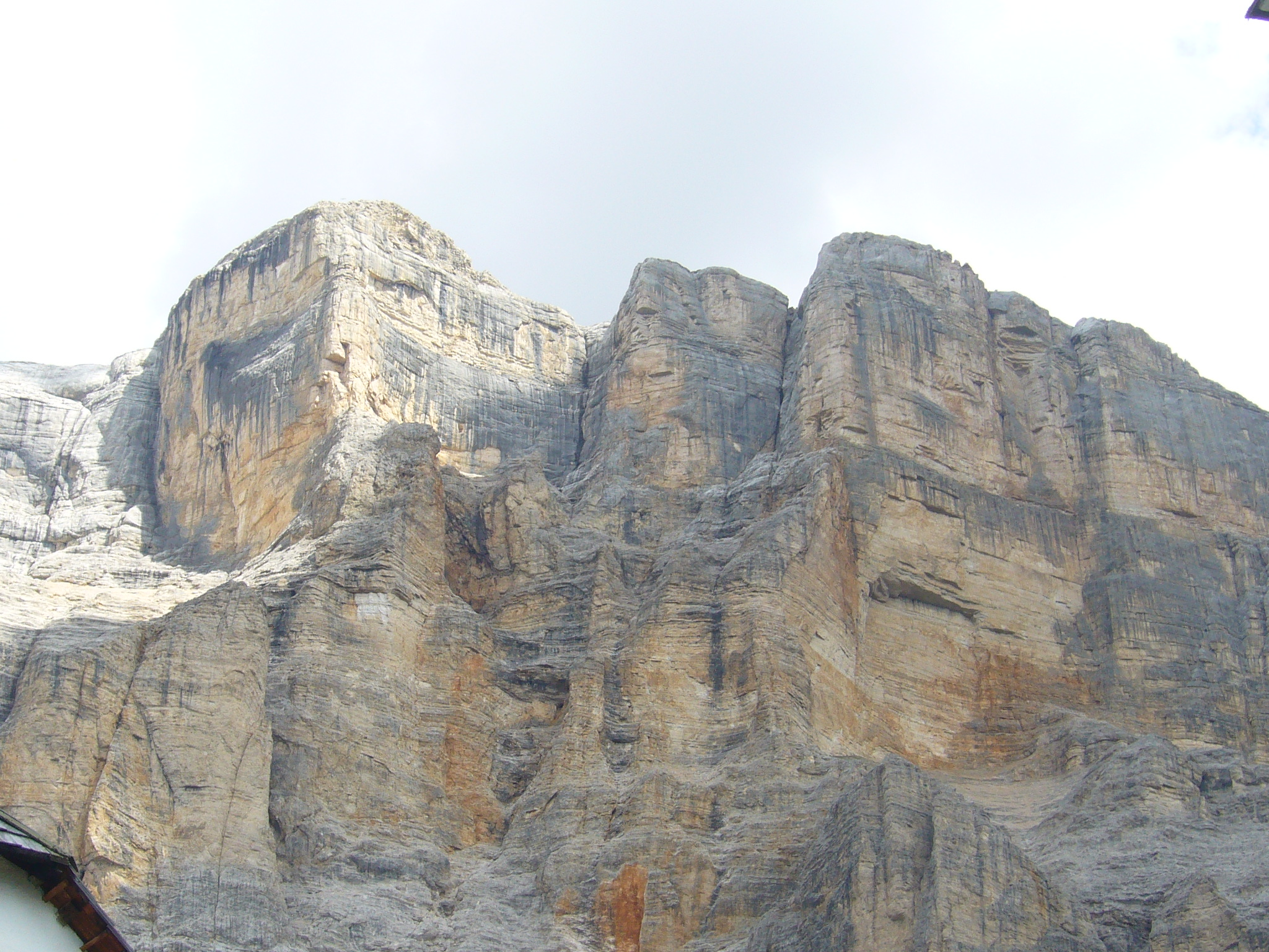 Heiligkreuzkofel in the Abteital (South Tyrol)